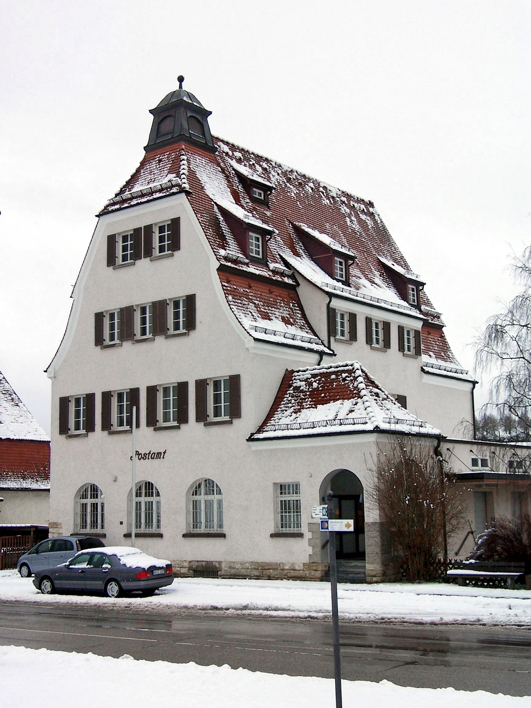 Historic Post Office Neresheim